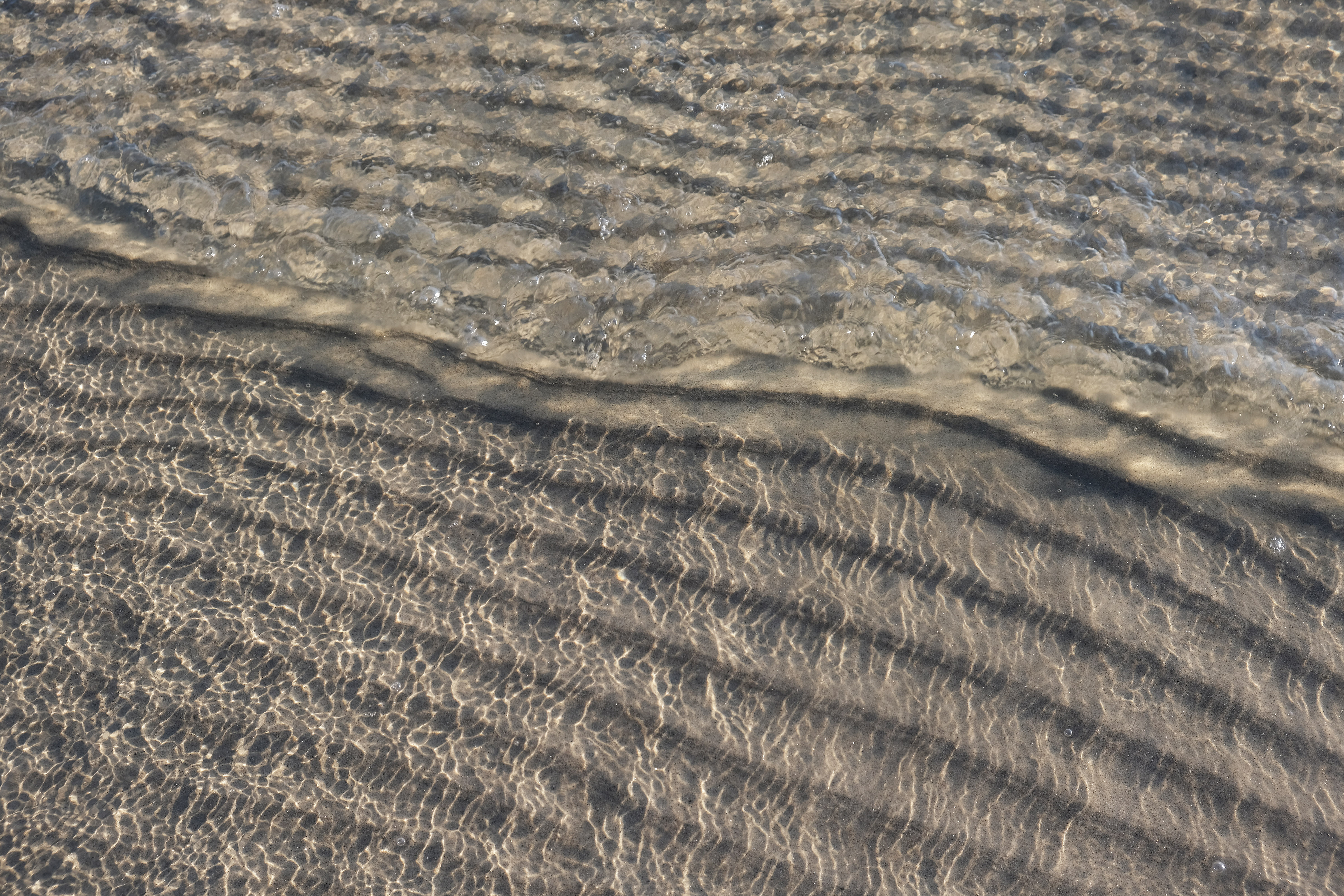 Sand ripples and a wave forming them in Reila, Finland.